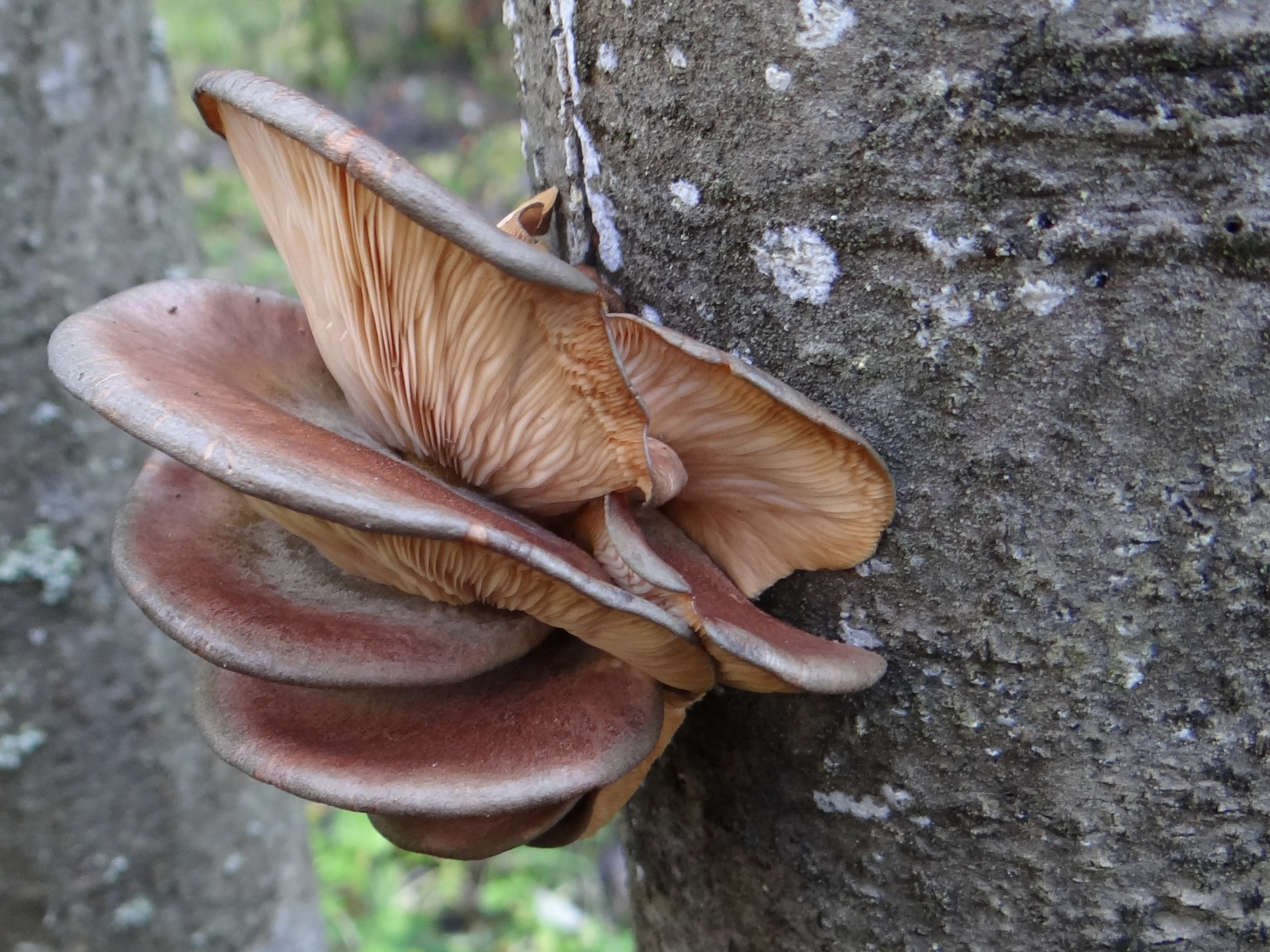 Panus conchatus